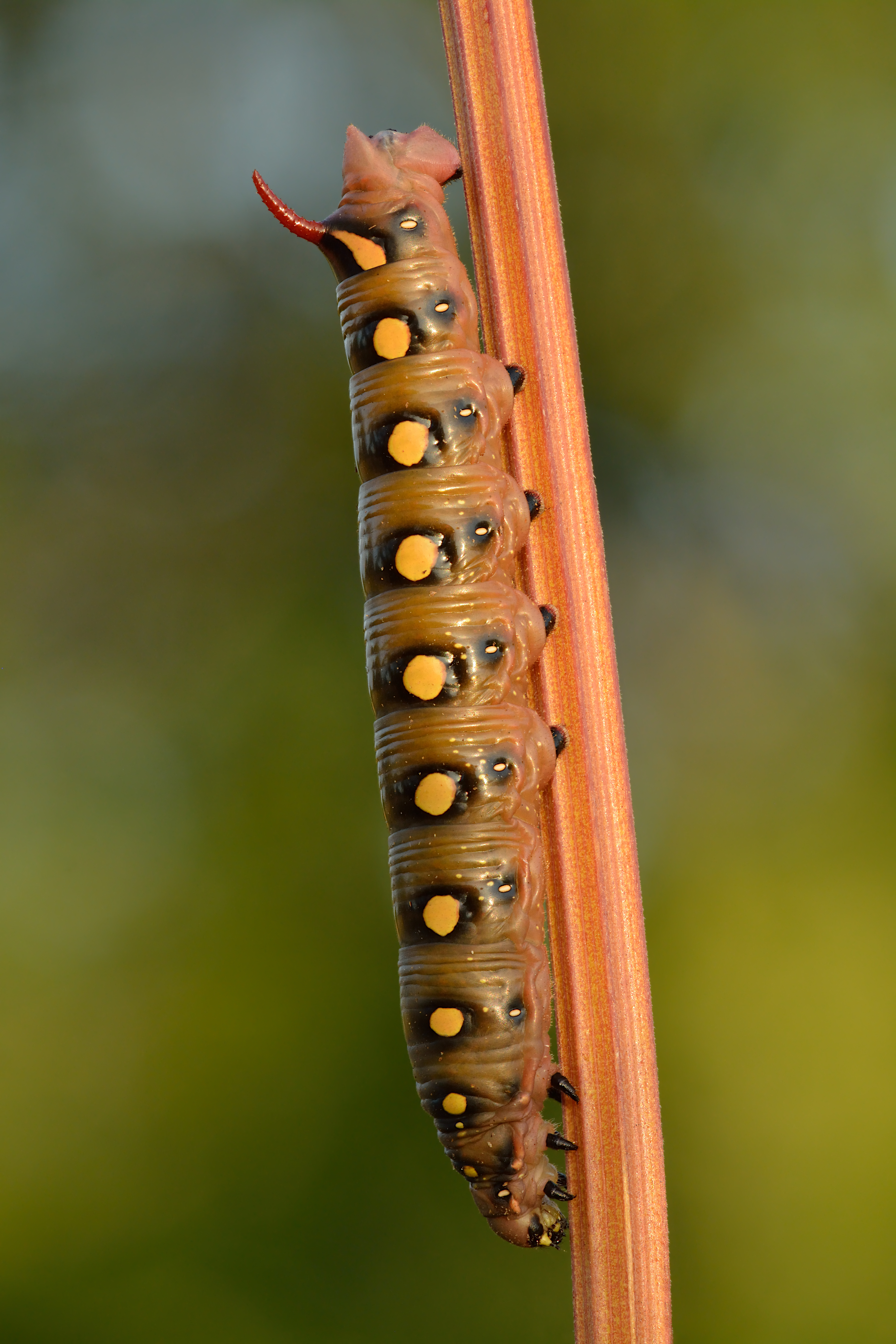 Bedstraw hawk-moth (Hyles gallii) caterpillar in a late stage. Keila, Northwestern Estonia